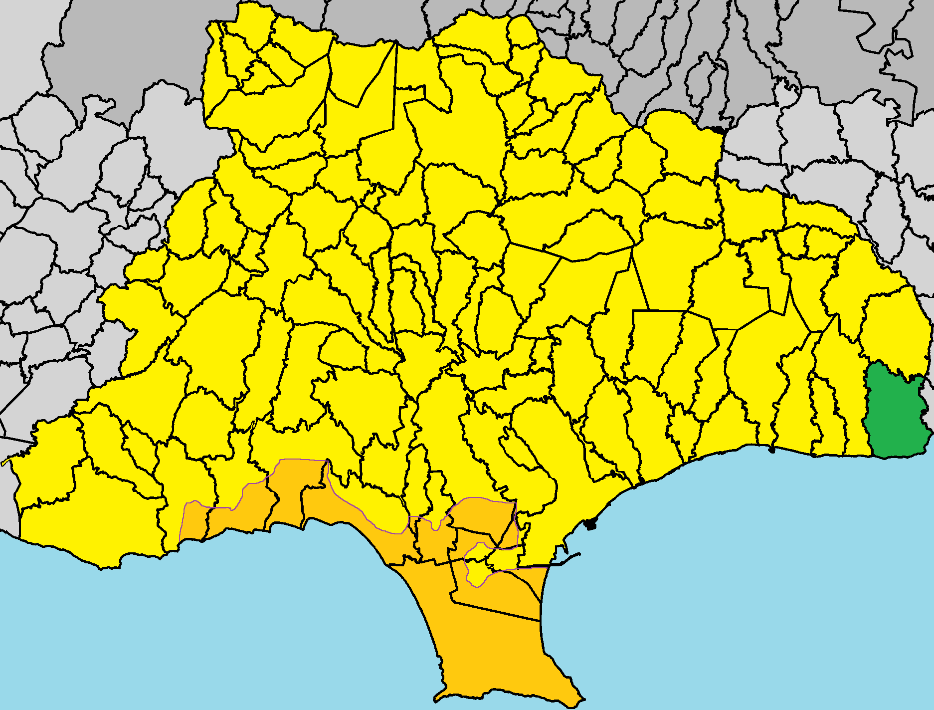 Pentakomo in Limassol District.